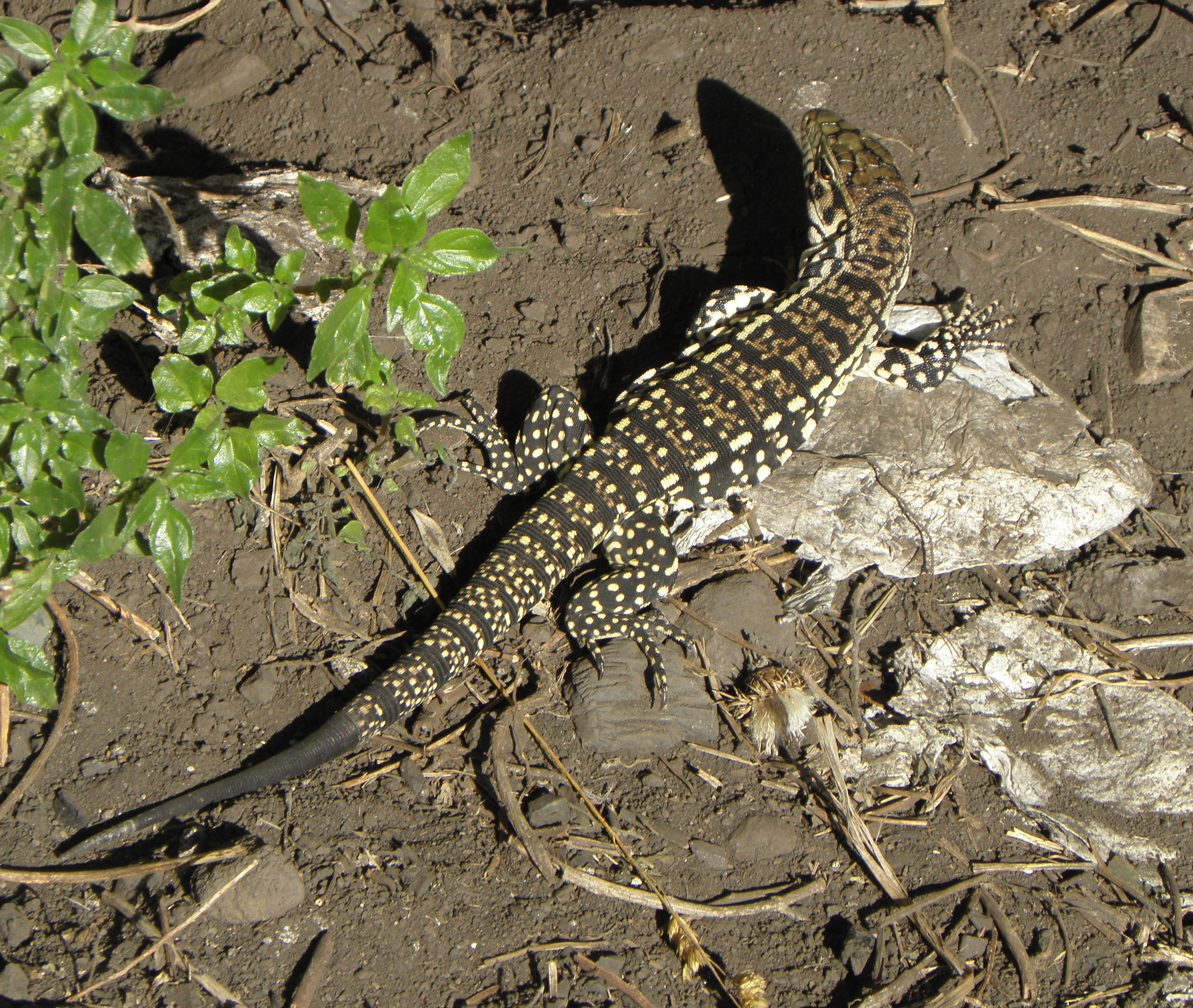 Argentine black and white tegu (Salvator merianae) juvenil, wildlife in Sierra de los Padres, Buenos Aires province, Argentina.